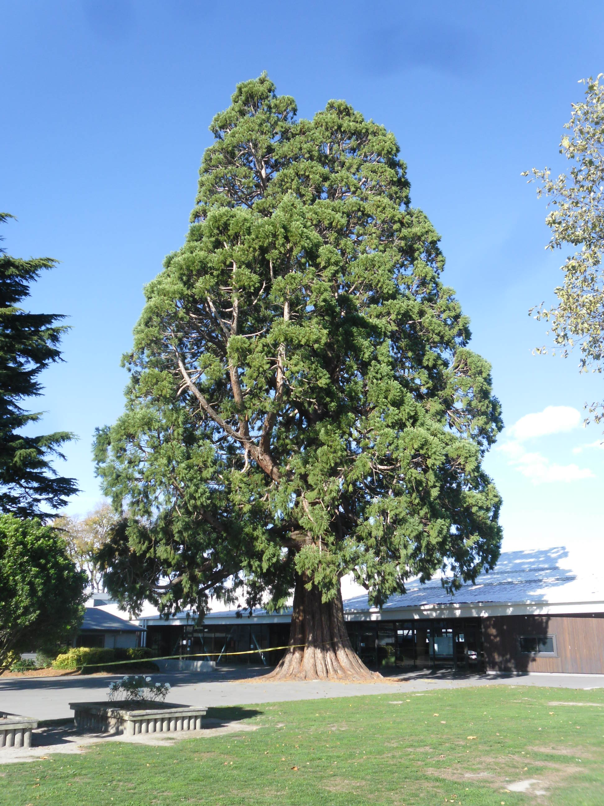 Giant Redwood Tree at Rangiora High School